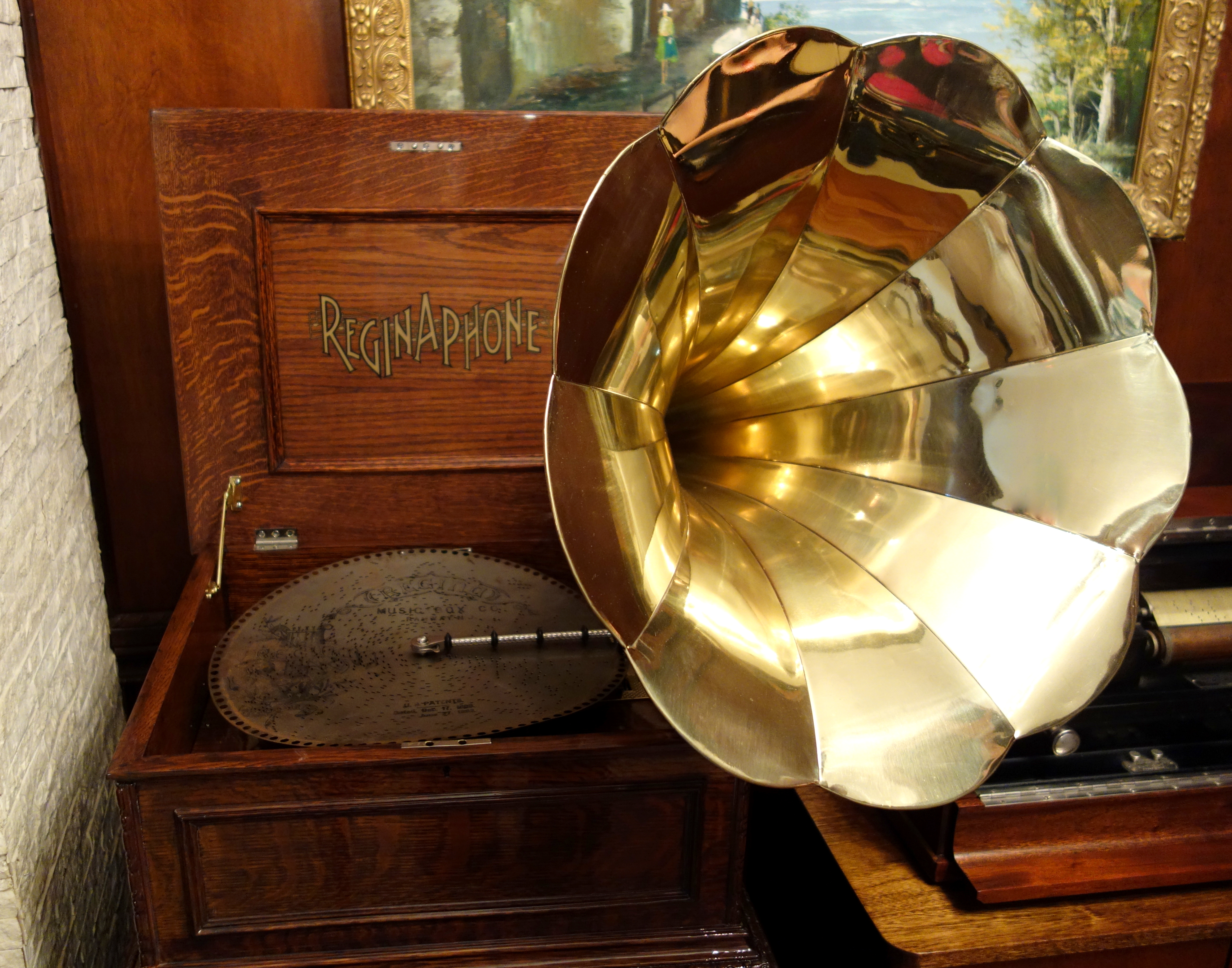 Exhibit in the Bayernhof Museum, 225 St. Charles Place, O'Hara Township, Pittsburgh, Pennsylvania, USA.